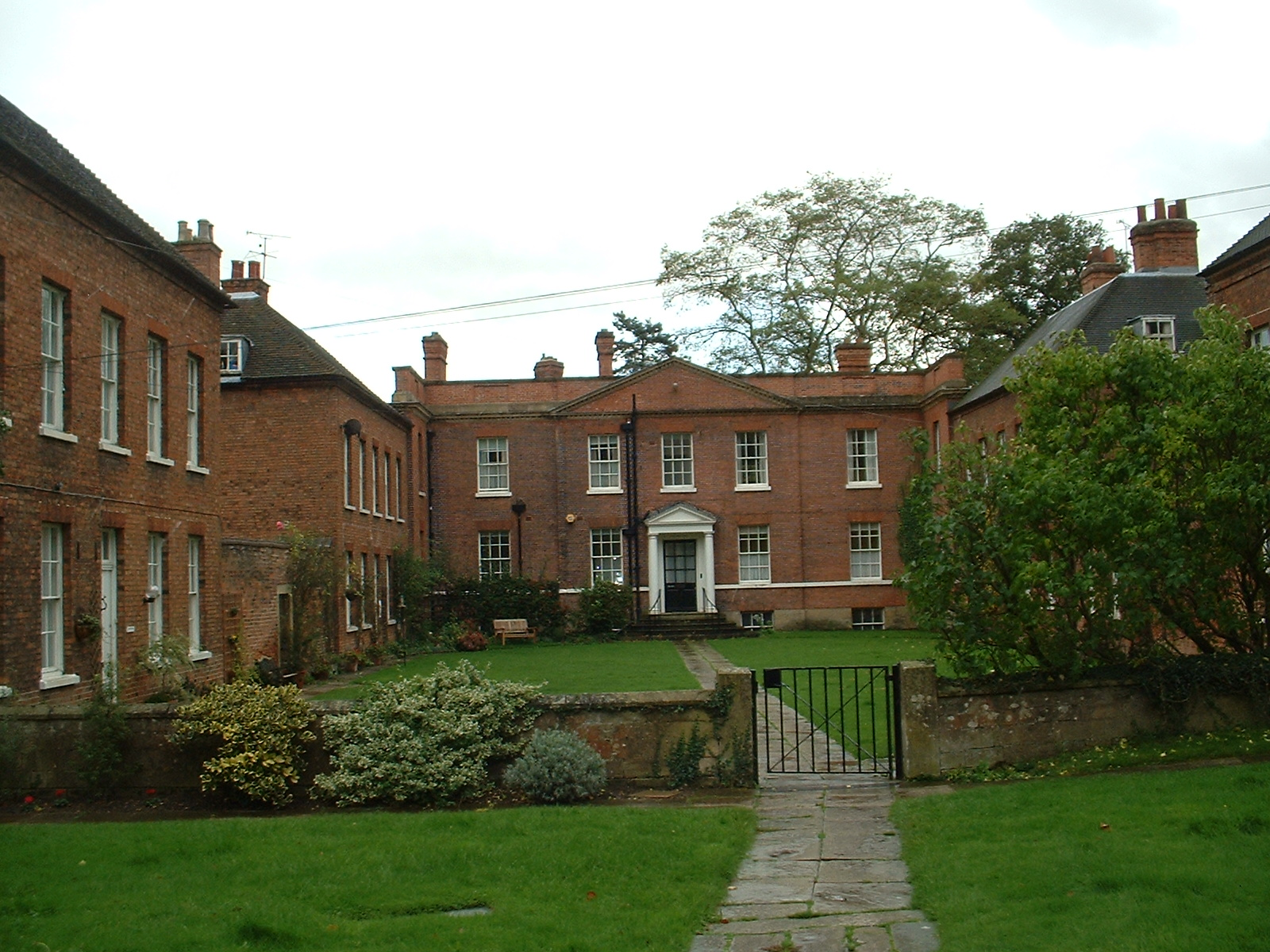 Vicars' Court and the Residence (at the far end), Southwell. These are the residences of the clergy who serve Southwell Minster. Taken by Necrothesp, 25 October 2005.